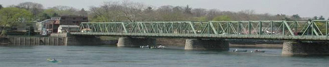 Bridge between Lambertville, NJ and New Hope, PA, USA